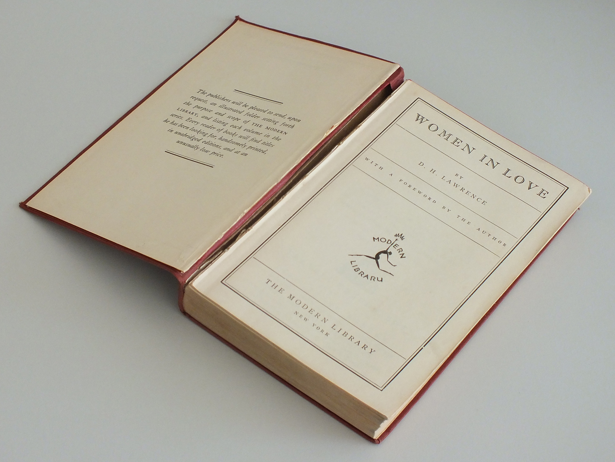 Lawrence, D. H. Women in Love. New York: Modern Library, 1937.